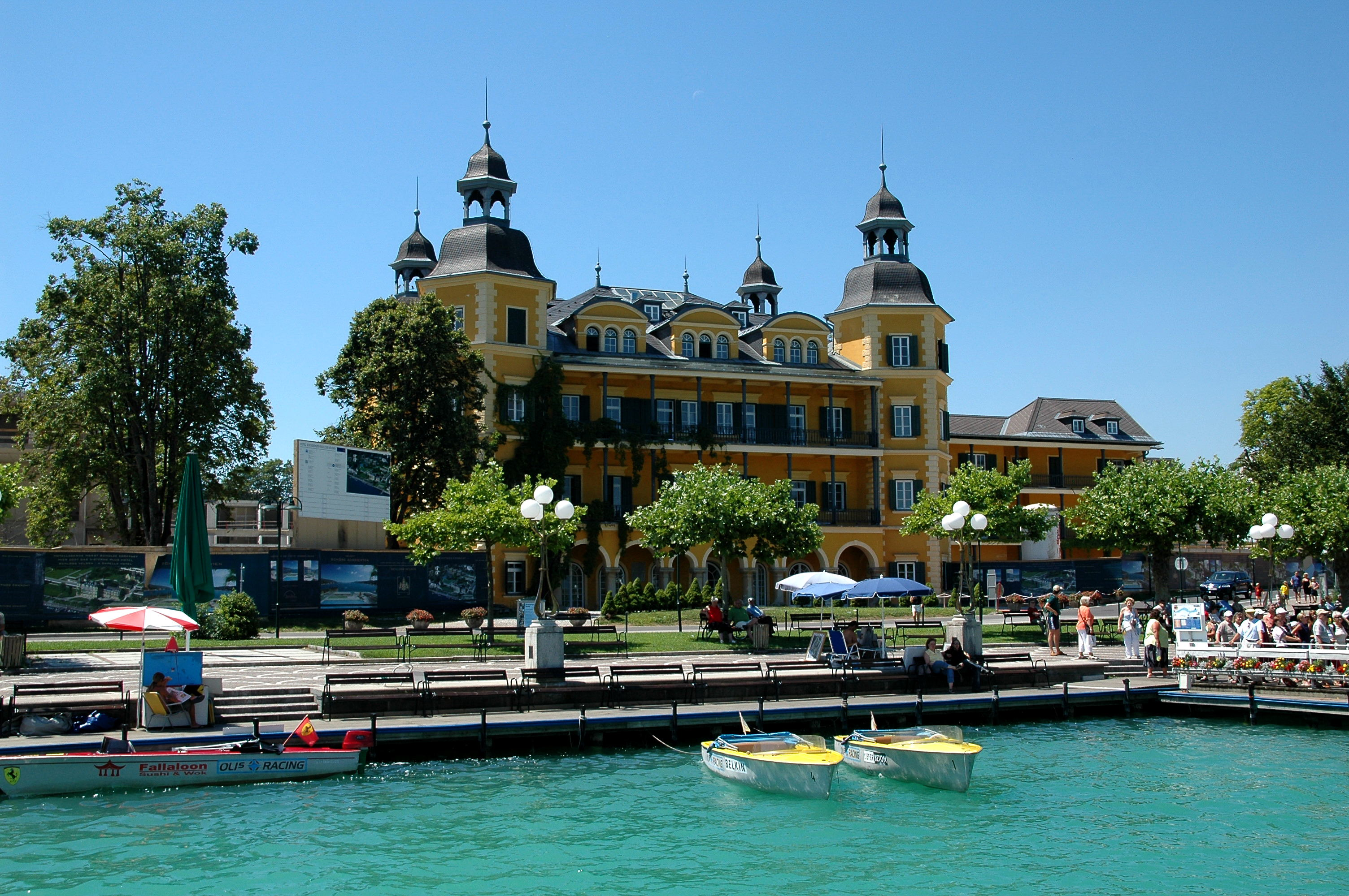 Castle Velden in Velden on the Lake Woerth, Carinthia, Austria